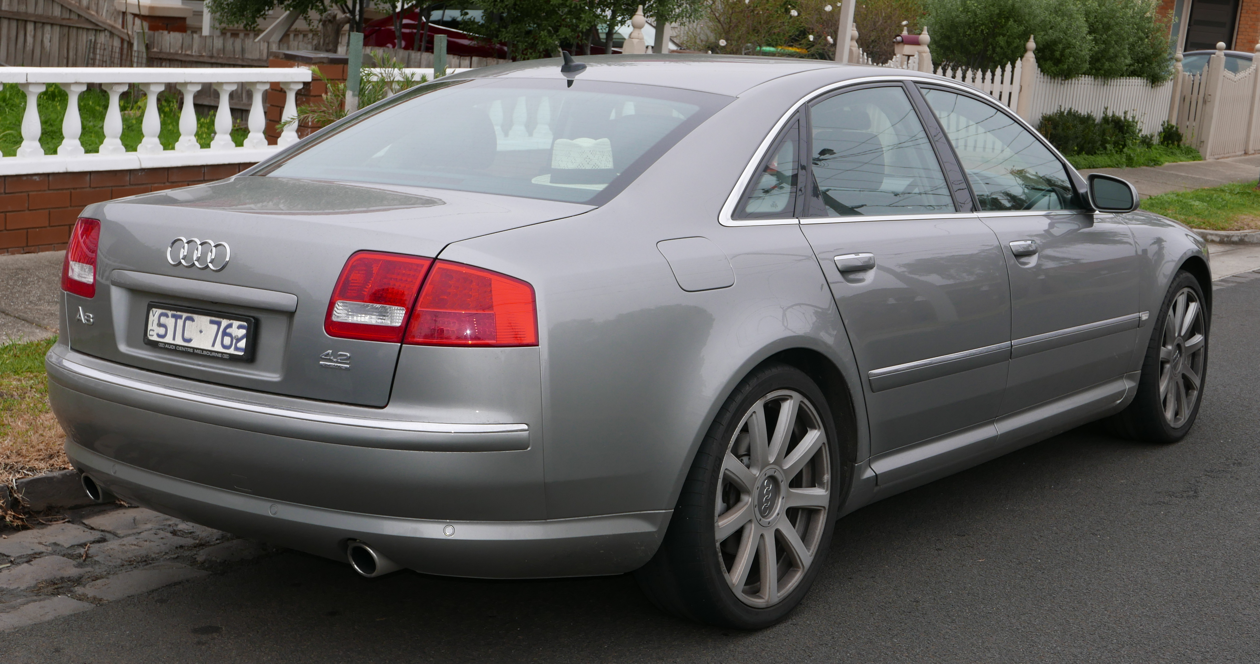 2004 Audi A8 (4E) 4.2 quattro sedan. Photographed in Coburg, Victoria, Australia. Vehicle registration enquiry results Jurisdiction Victoria Registration STC762 Chassis code WAUZZZ4E24N019288 Engine code BFM019980 Compliance date 2004-04 Year of manufacture 2004